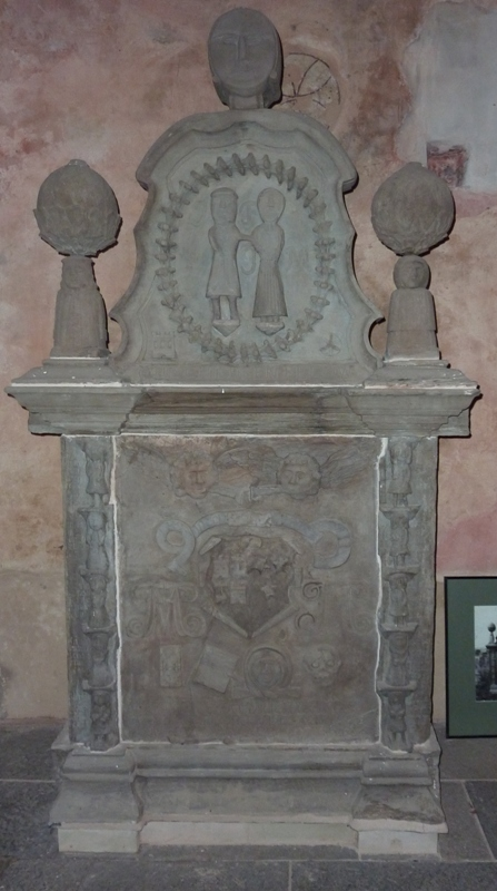 Innerpeffray Chapel, Perth and Kinross, Scotland. Faichey Monument (1707).